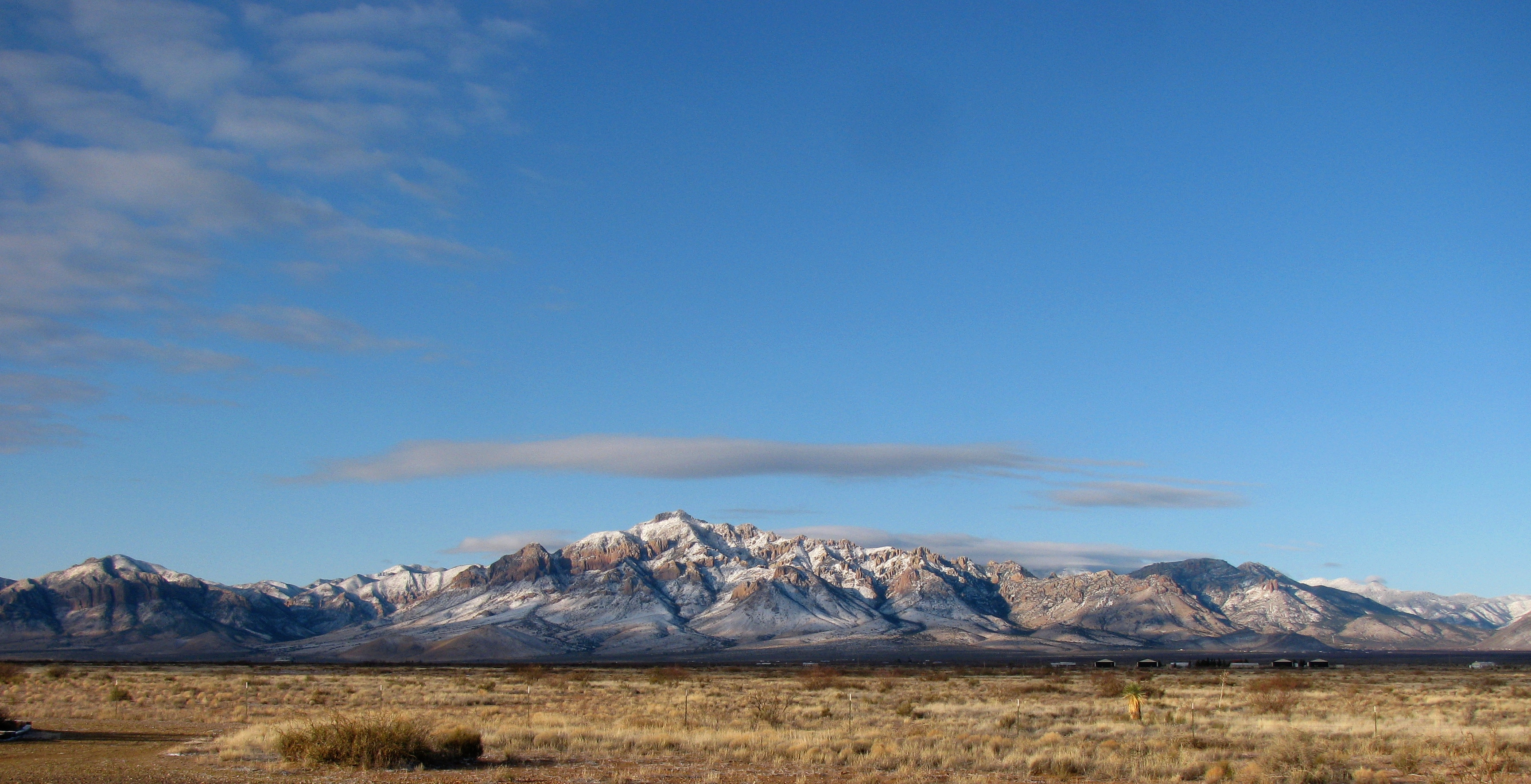 A view of the east side of the Chiricahua Mountains from the San Simon Valley, outside Rodeo New Mexico.